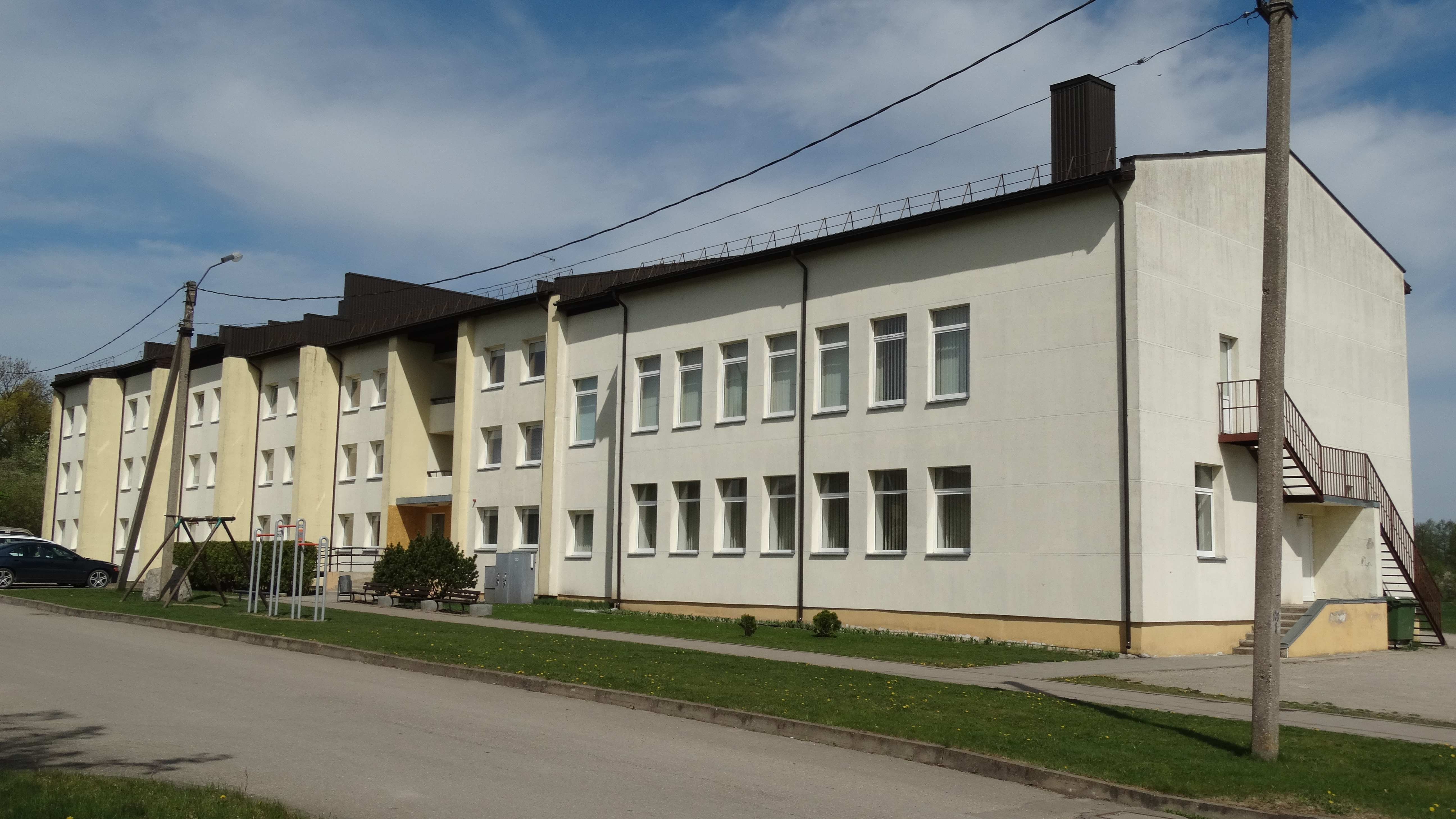 Linkuva special school, Pakruojis District, Lithuania